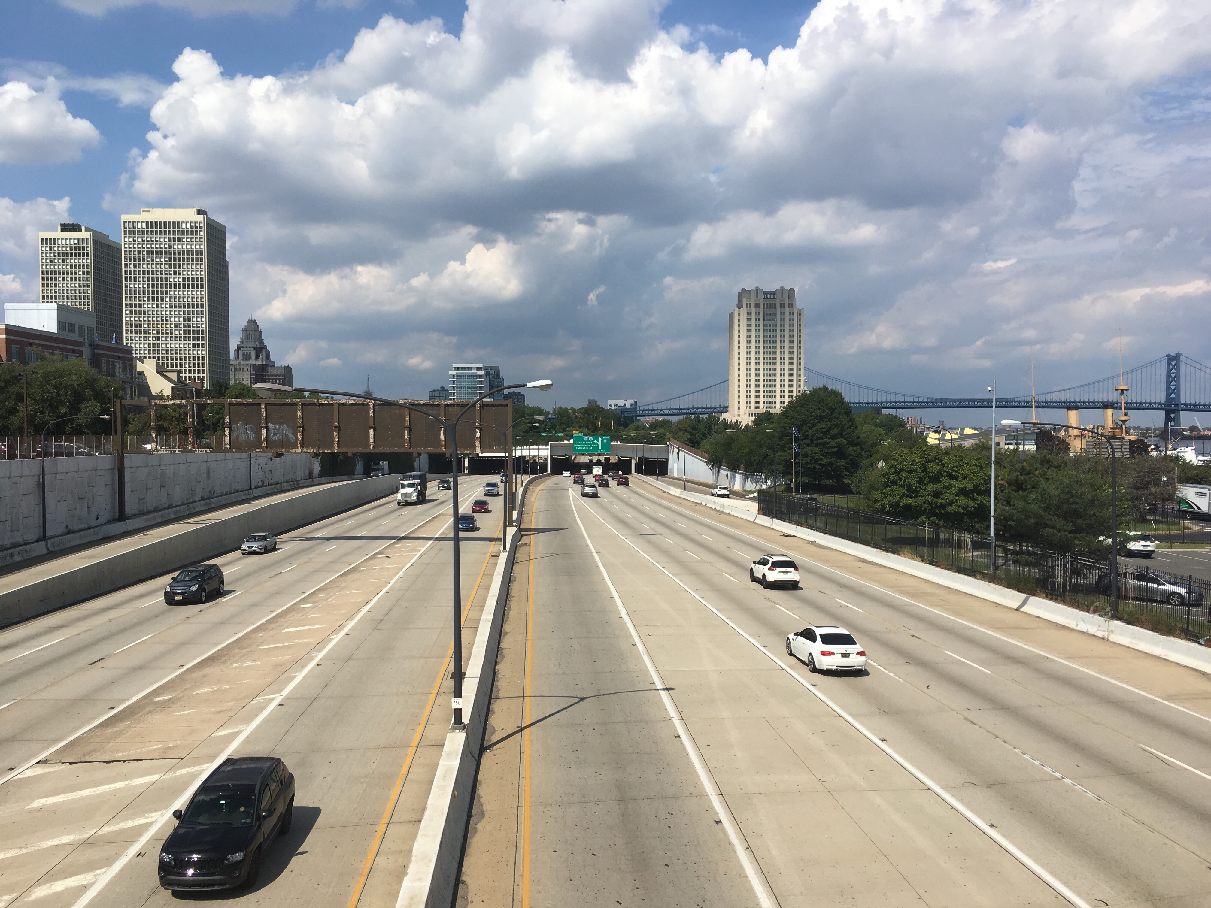 Northbound Interstate 95 (Delaware Expressway) in Philadelphia, Pennsylvania, viewed from the South Street overpass